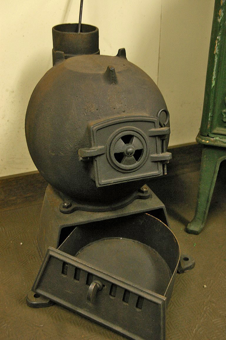 Daruma stove produced at JR Hokkaido naebo factory.